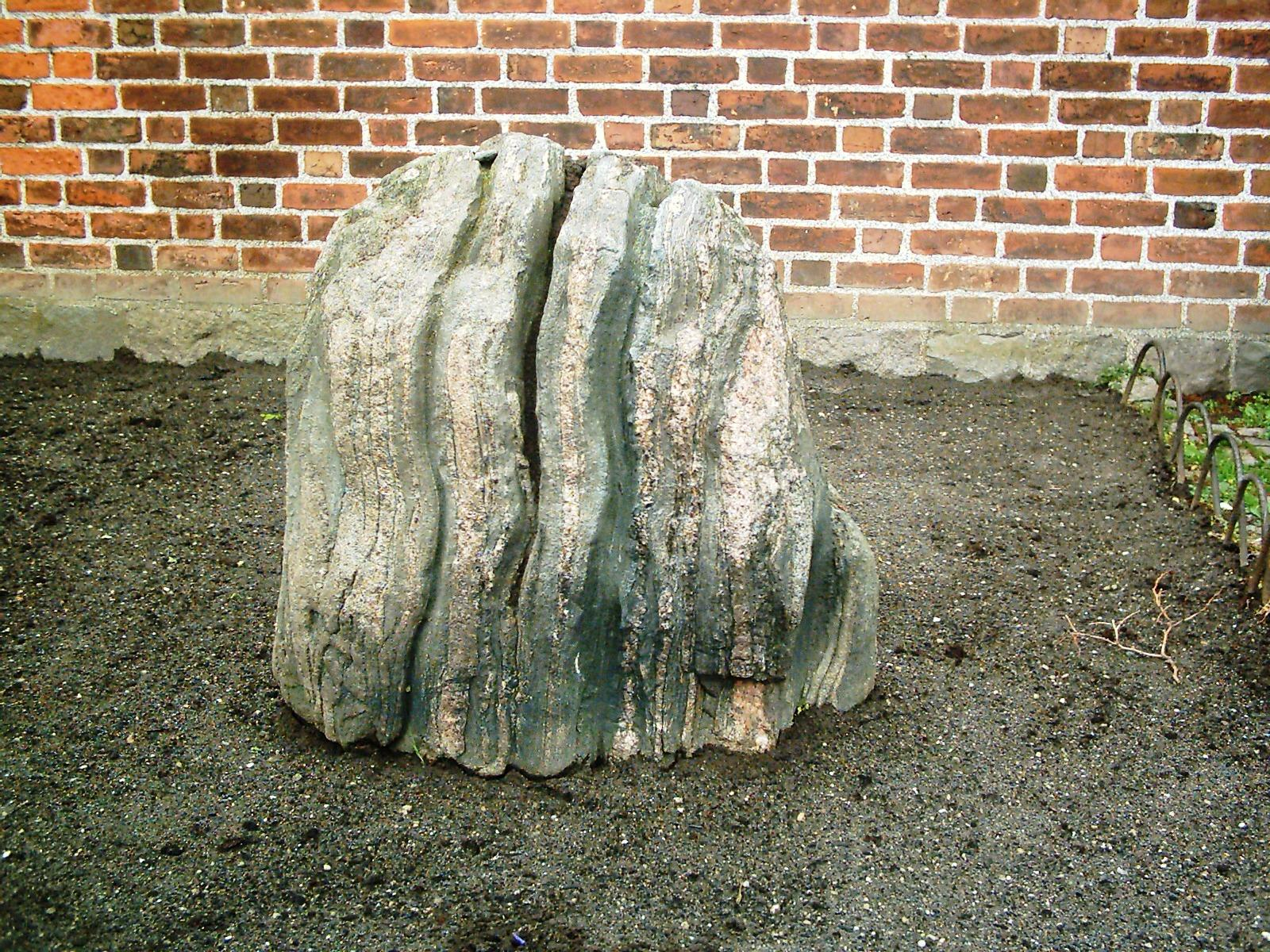 Stone which is said to have been scored by the devil at the cathedral Roskile Domkirke, Roskilde, Denmark